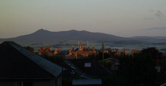 Sunrise over Meldrum. The picture shows a view over the village of Old Meldrum, just after sunrise (4:20am). The town hall in the centre is lit by the rising sun, which has not yet, "burnt-off" the mist lying over the farmland beyond. Bennachie forms a back drop to the scene.